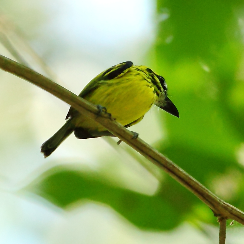 Yellow-browed Tody-Flycatcher at Iranduba - AM - Brazil